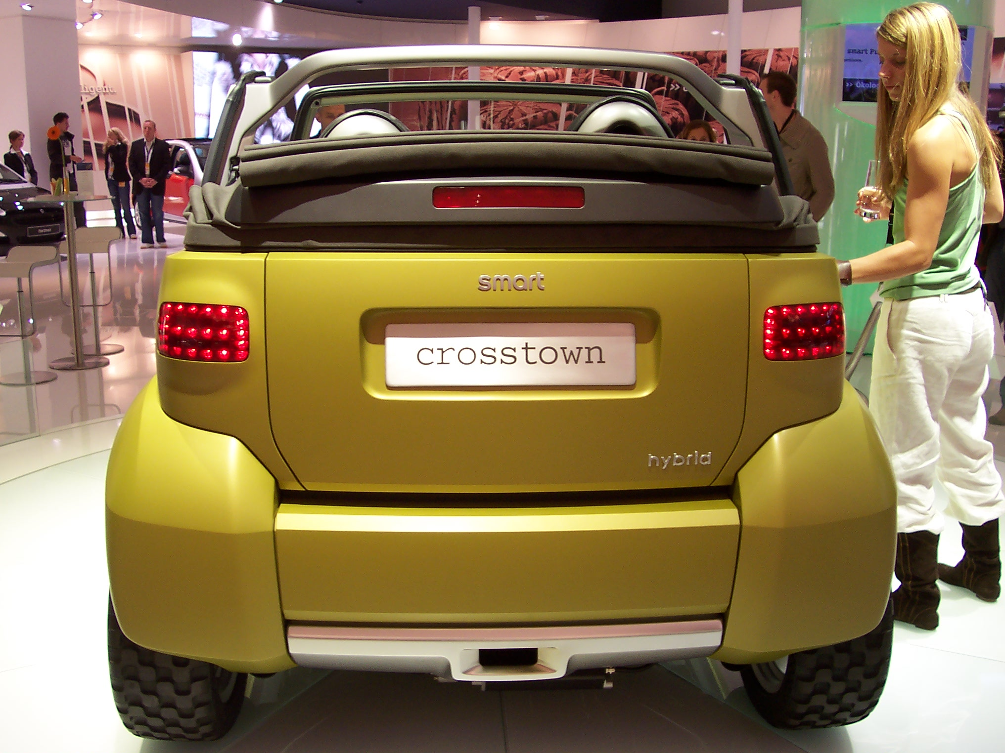 Smart (automobile) - crosstown hybrid (Concept vehicles)